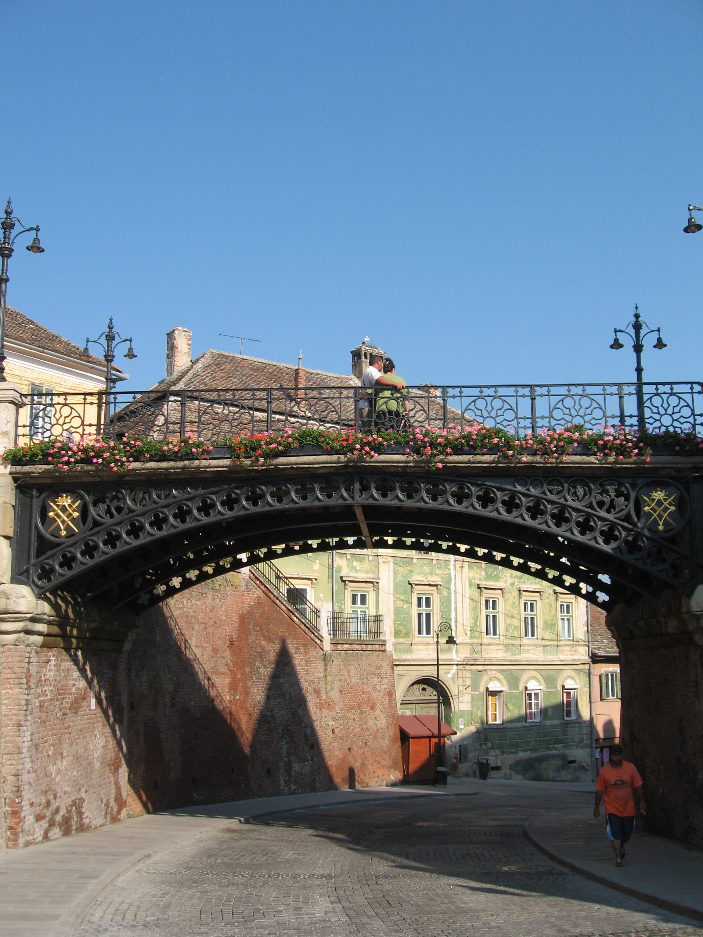 Bridge of Lies and Tourists